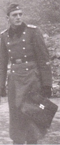 Anton Kokalj-Tonči (1892-1945), slovenian officer and nazi collaborator